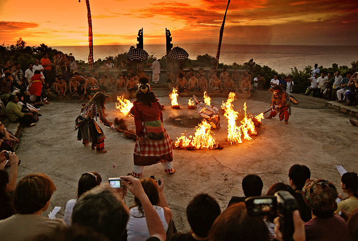 Hanuman is set on fire as punishment, Kecak Dance, Pura Luhur Uluwatu, Bali.